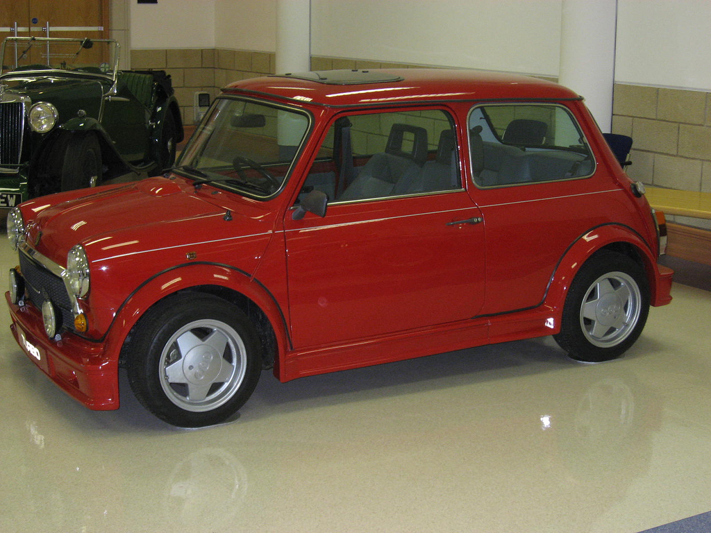 Mini era turbo at the British motoring heritage museum gaydon .